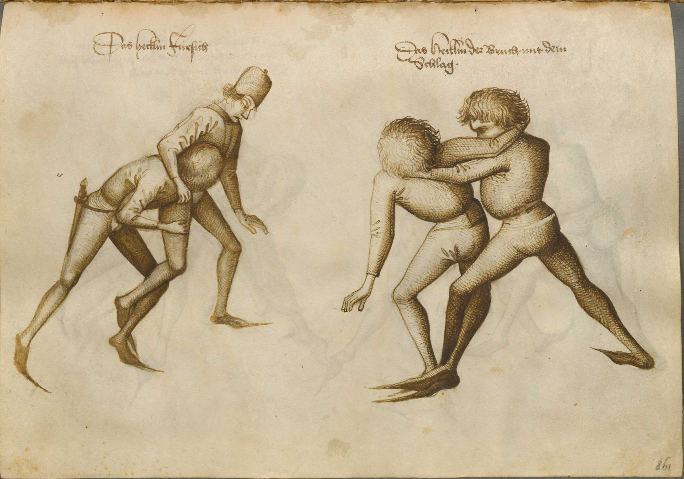 This is a scan of the historical Fechtbuch ('fencing book') by German fencing master Hans Talhoffer.